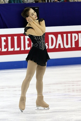 World Championships 2015 – Ladies (So Youn PARK KOR – 12th Place)